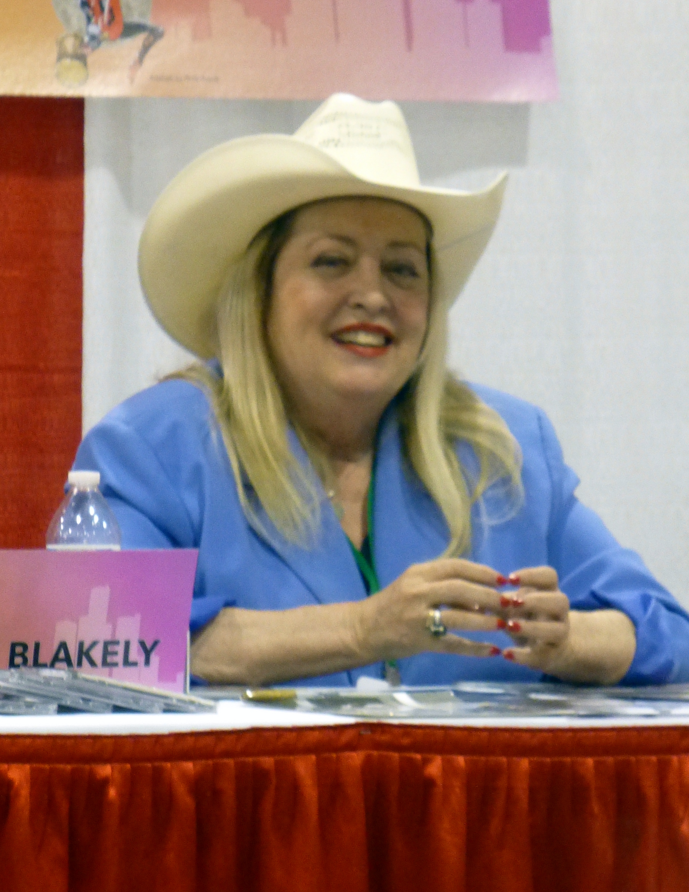 Ronee Blakley 01 Motor City Comic Con 2015